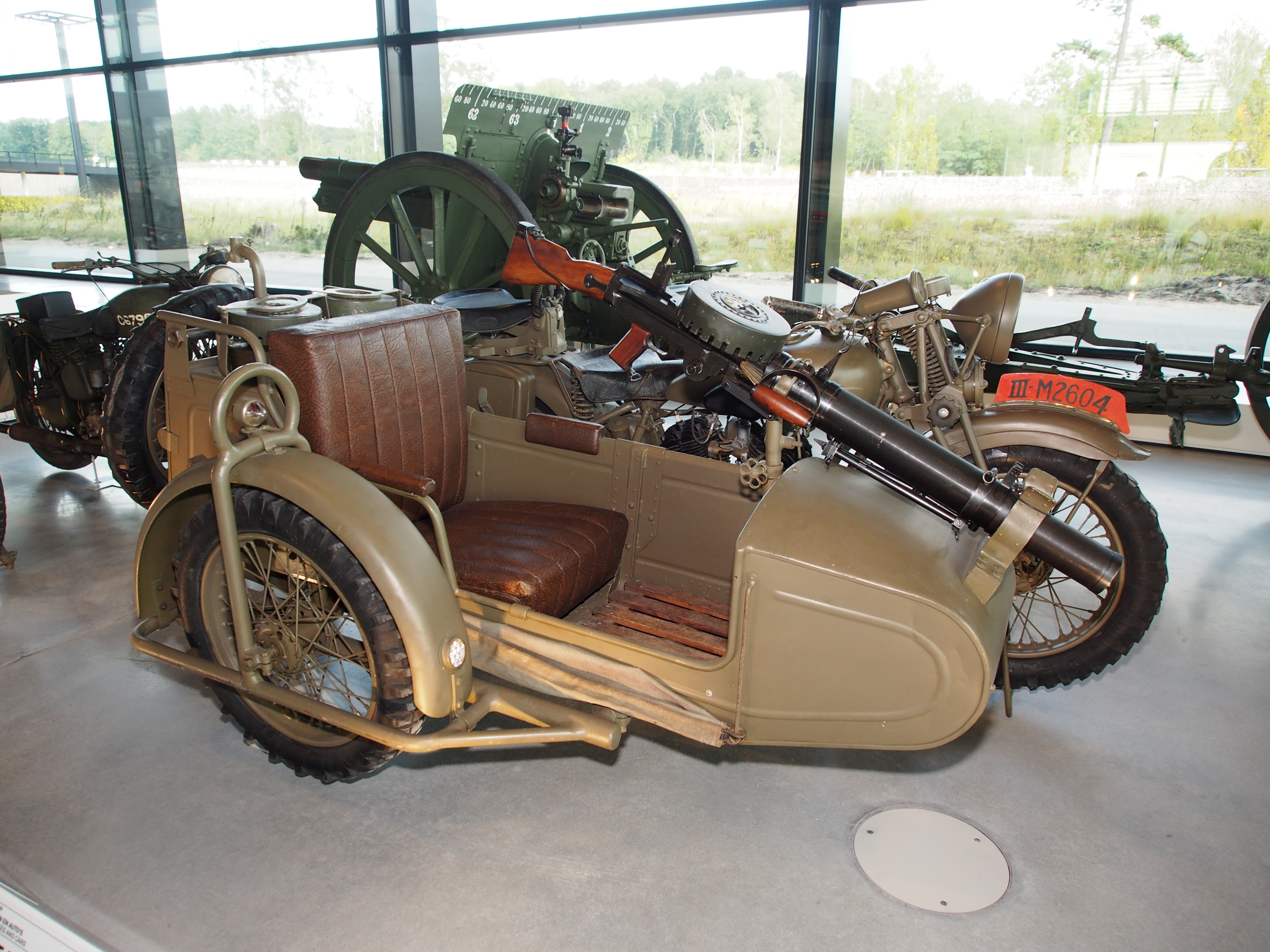 Photographed at the Nationaal Militair Museum, Soesterberg.